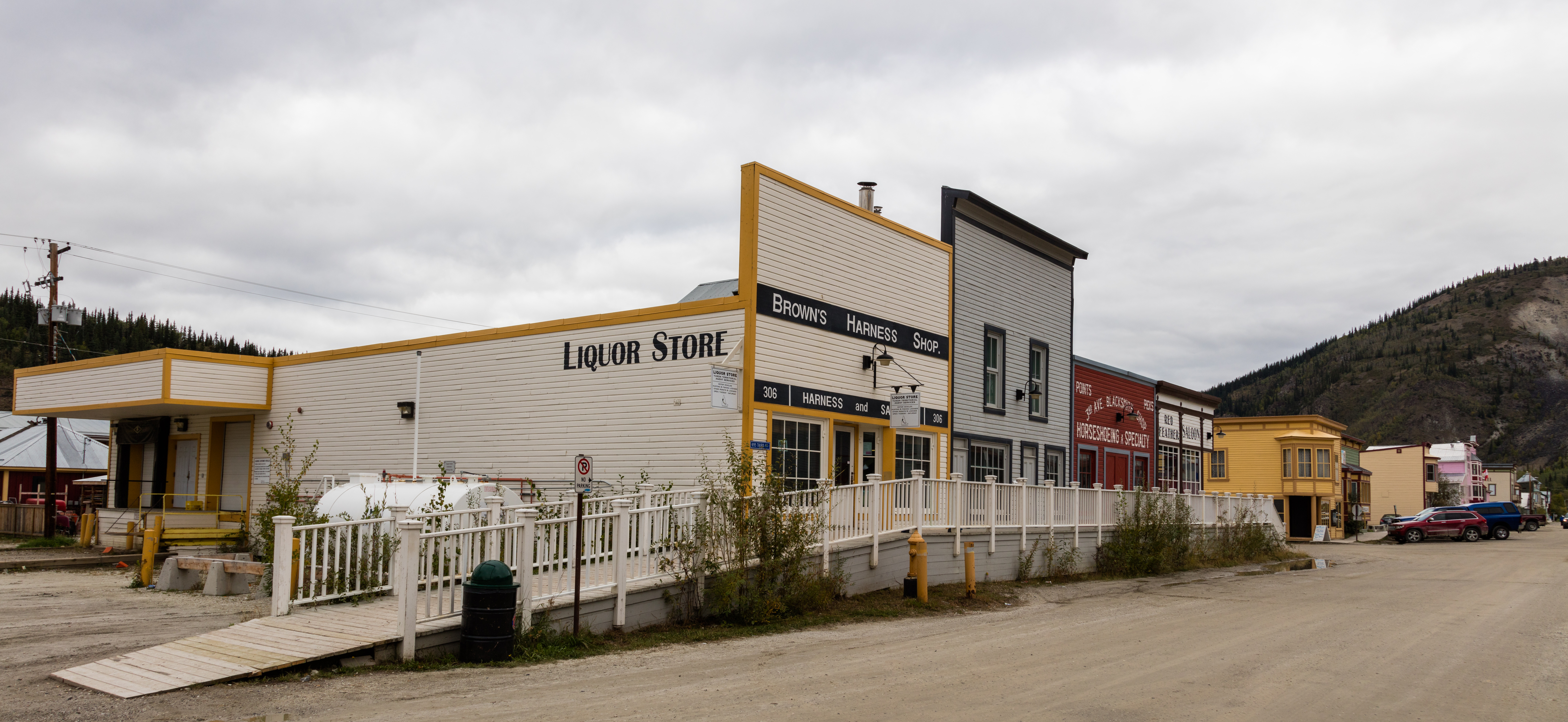 Third Avenue, Dawson City, Yukon, Canada